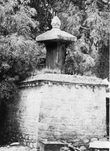 (Detail of) The Treaty pillar outside the Jokhang in Lhasa with the text of the Sino-Tibetan treaty of 821-2 . It is enclosed by a wall and there is a large overhanging willow tree in the background. In front there are some packing cases and a bag. On the right there is an awning with a shop stall and some people passing in front of it. On the left there is a woman with a child and a sheep being used as a pack animal.